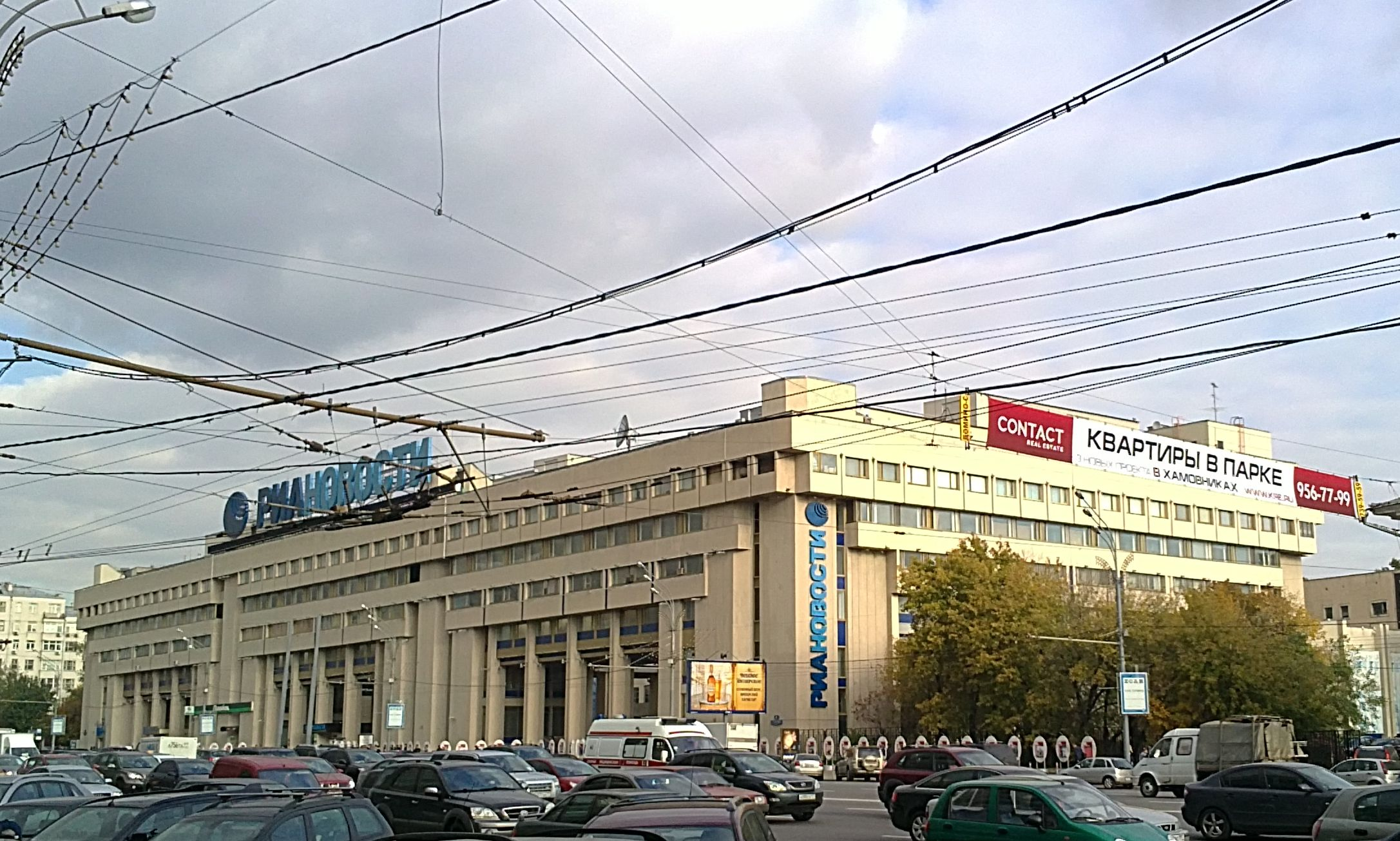 The building of RIA Novosti, former press-center of 1980 Summer Olympics, an example of brutalist architecture in the USSR. Address: 4, Zubovsky boulevard, Moscow. Built in 1976-1979, architectors Igor Vinogradsky et al.